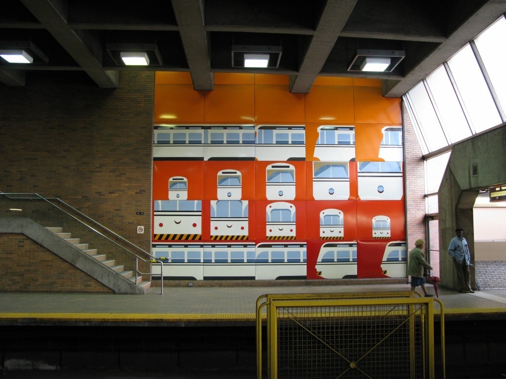 Mural on the platform at Eglinton West Station in Toronto. This work is titled "Summertime Streetcar" (by who?)